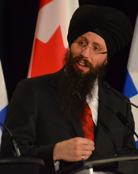 Martin Singh during an NDP Leadership debate on March 4, 2012 in Montreal.This is a cropped version of the original photograph.